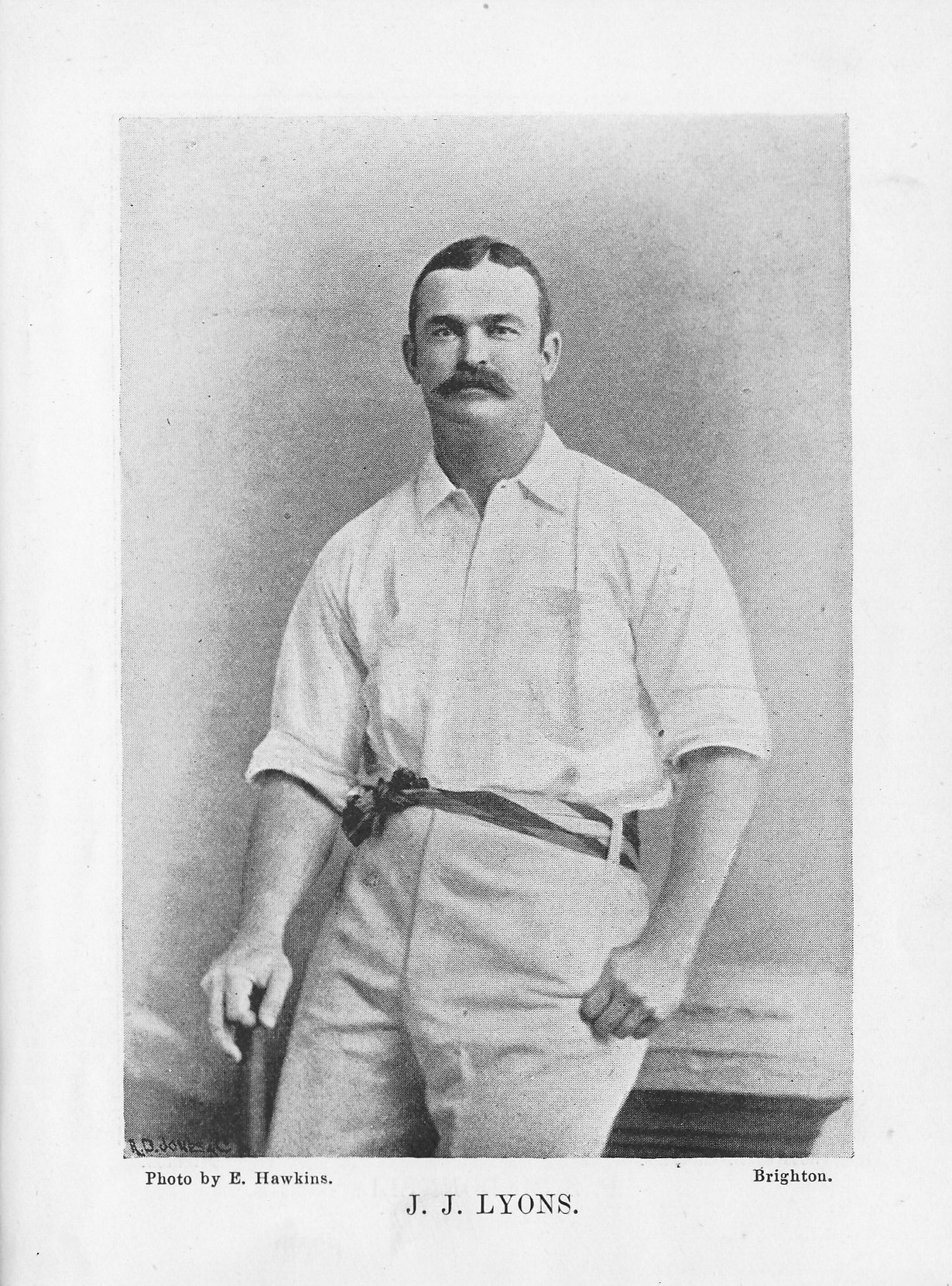 Scan of cricketer Jack Lyons